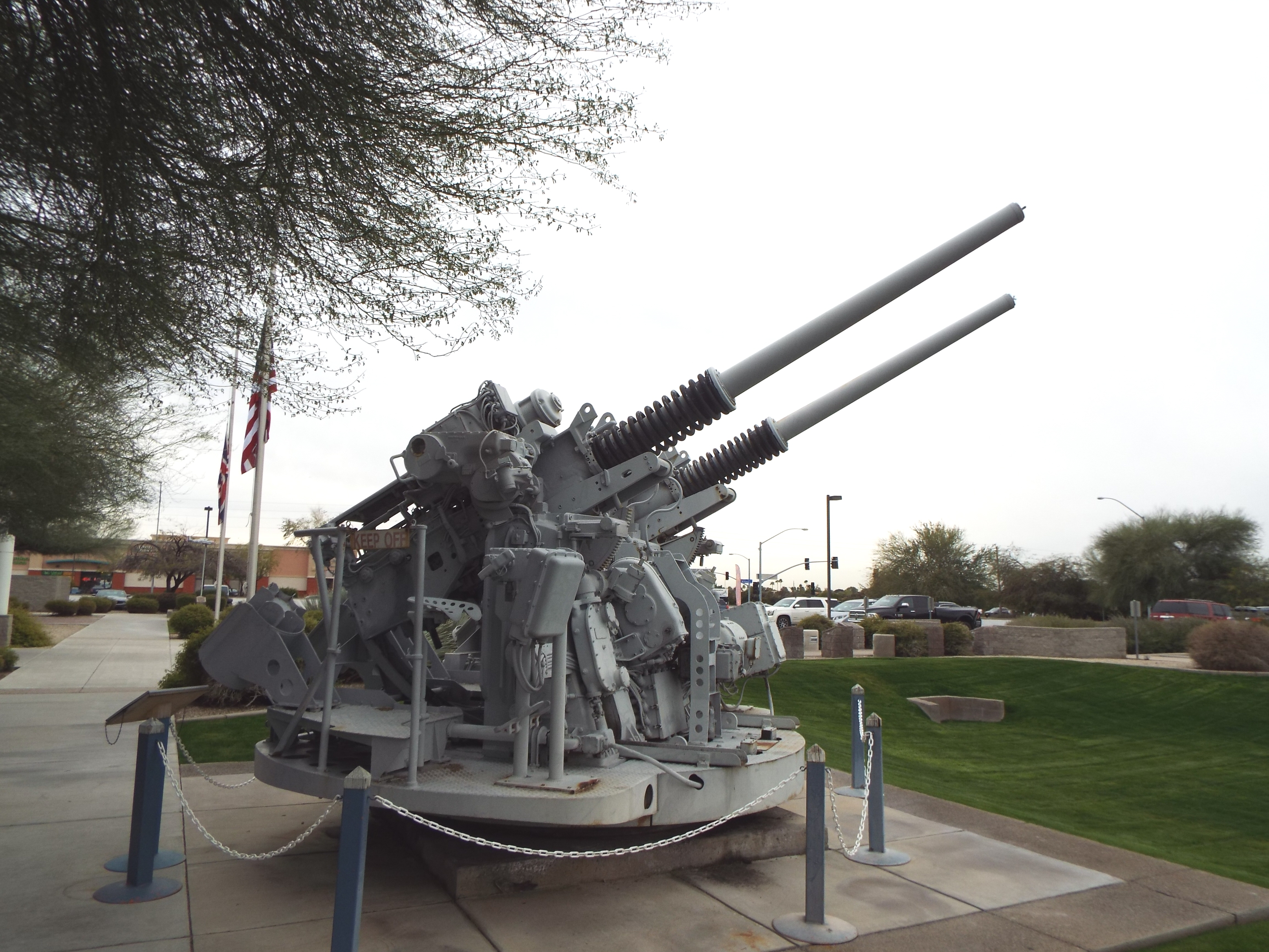 Arizona Commemorative Air Force Museum's 3 inch Mark 33 Deck Gun in Mesa, AZ